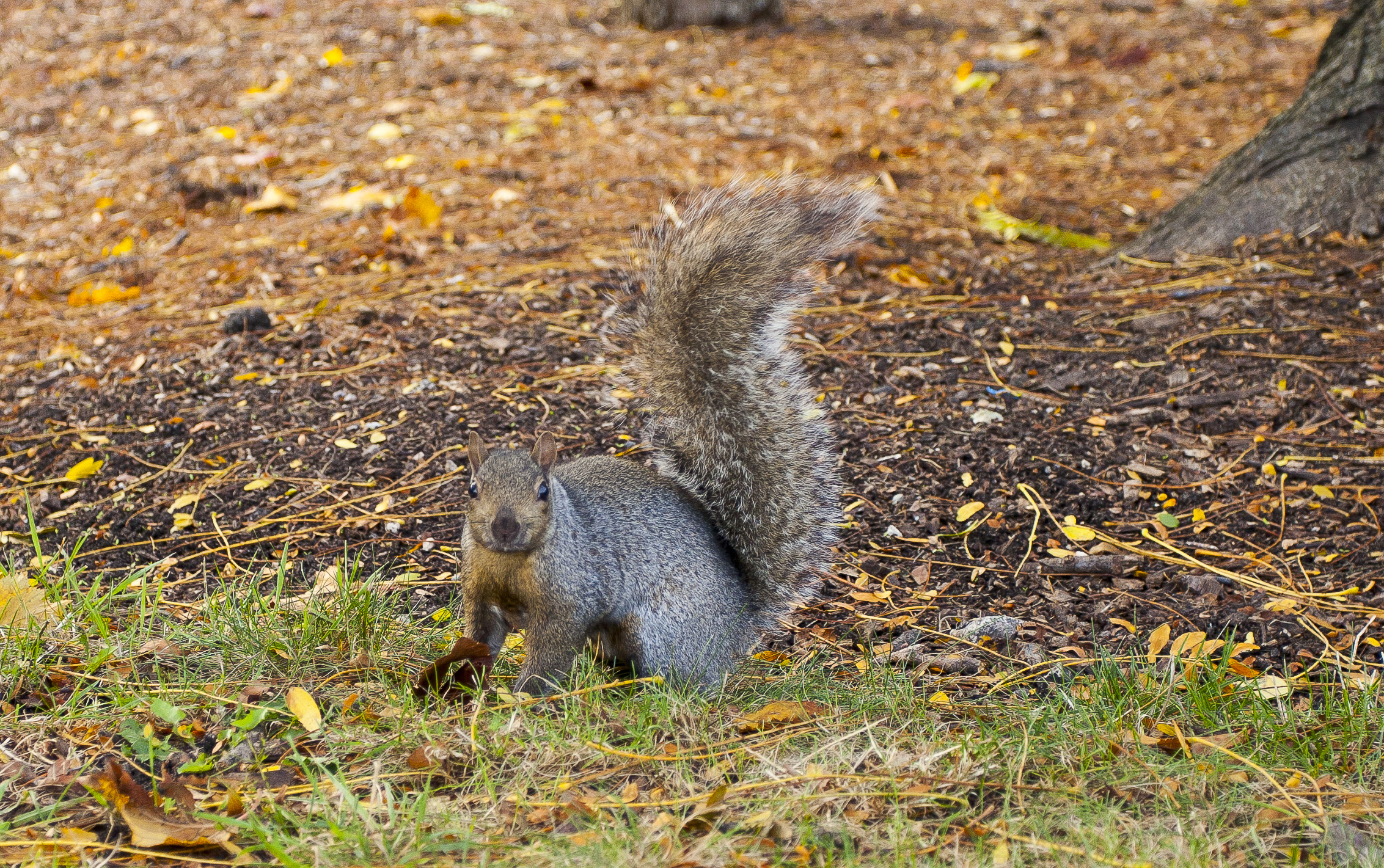 Eastern gray squirrel (Sciurus carolinensis), Grant Park, Chicago, Illinois, USA